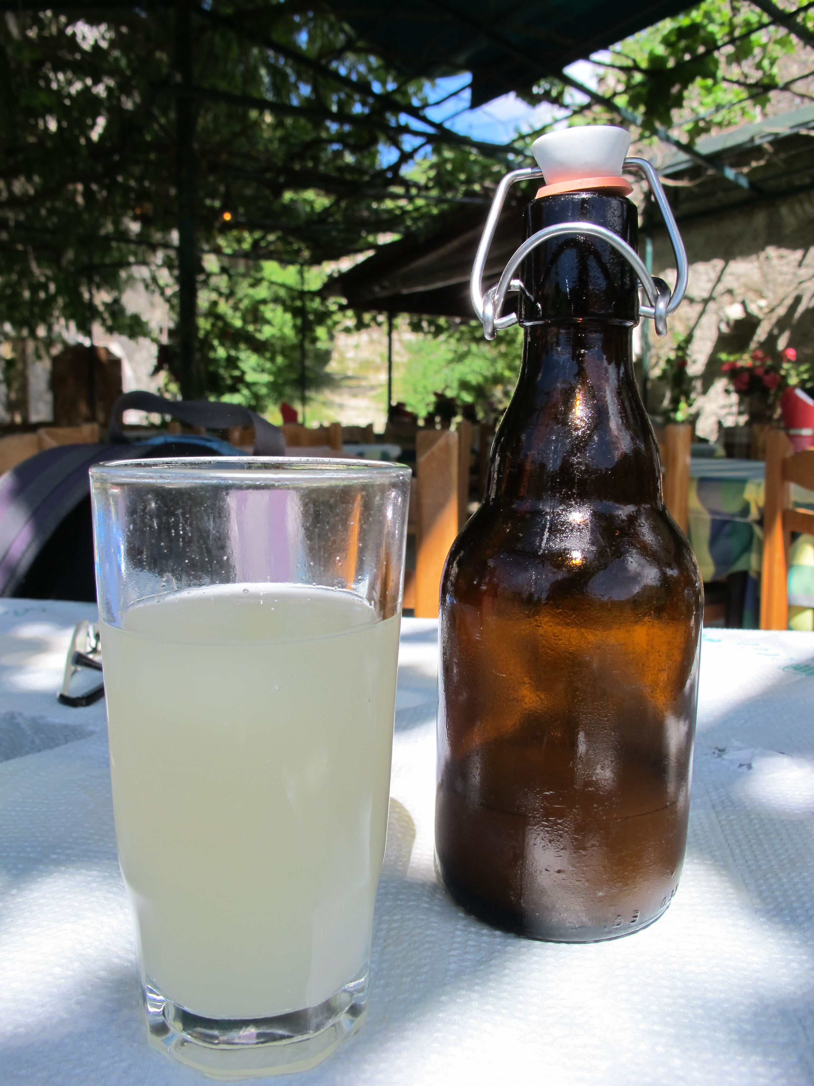 Home made Ginger beer at a restaurant on Corfu